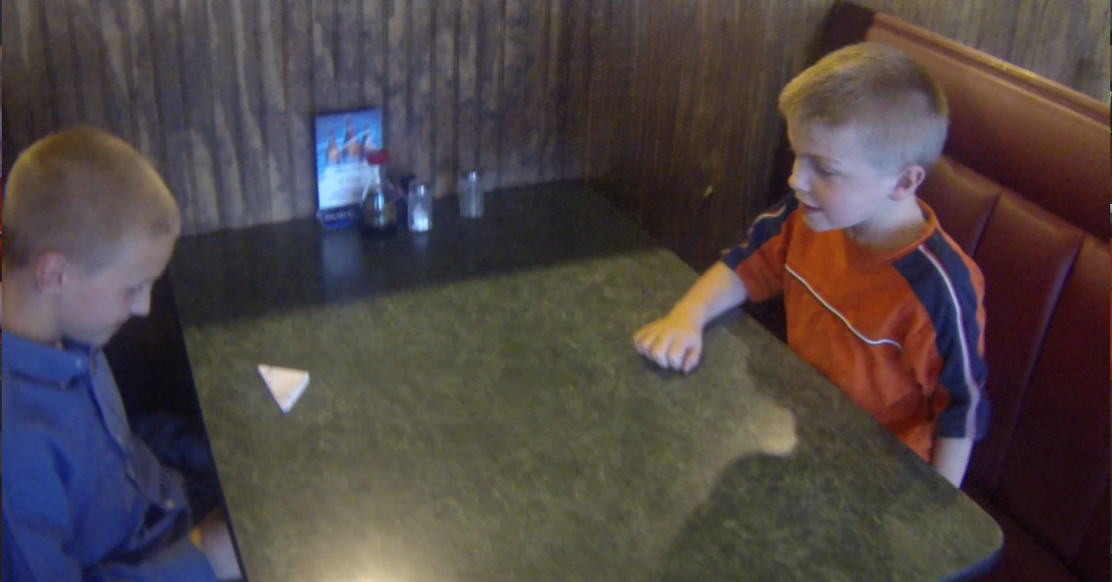 Two boys playing paper football